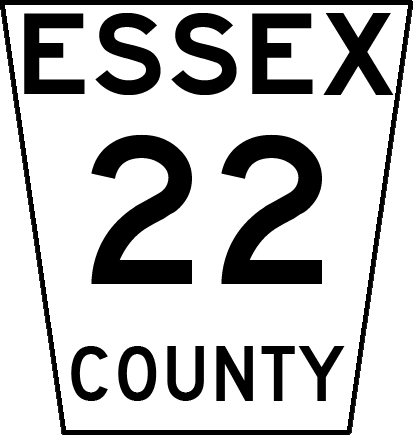 For this new version, i've used the "Roadgeek 2000 Series E" font for the word "ESSEX" (size: 120pt), a 175pt line break, and 80pt for "COUNTY". For the number designation ("22"), i had a 30pt line break at the top, with the numbers using the "Roadgeek 2000 Series D" (size: 220pt). Made by User:RingtailedFox, and is in the public domain for anyone to use for whatever reason they see fit, as long as credit is given that I made this image.